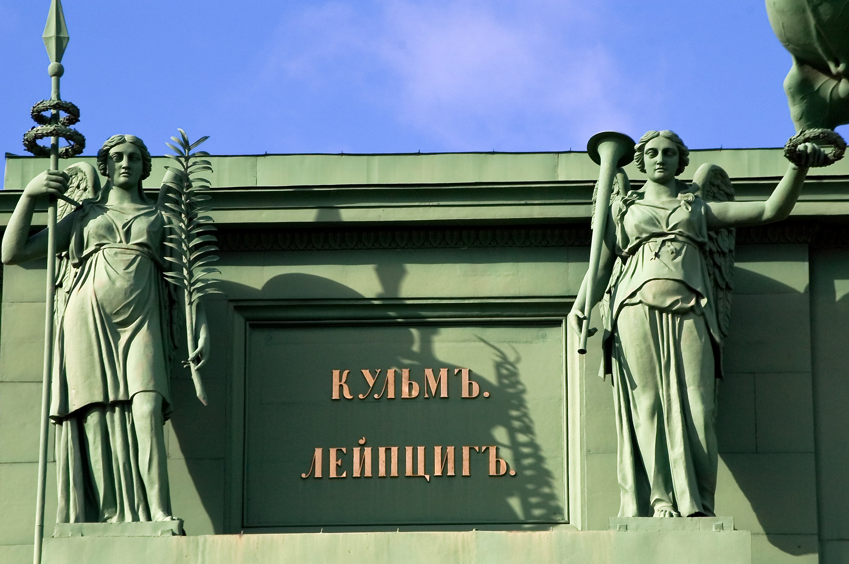 Narva Triumphal Gate.